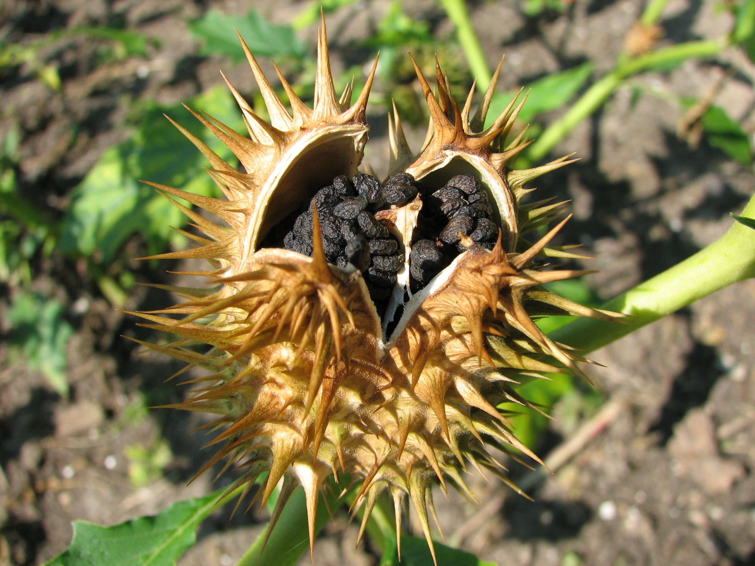 seeds from Datura